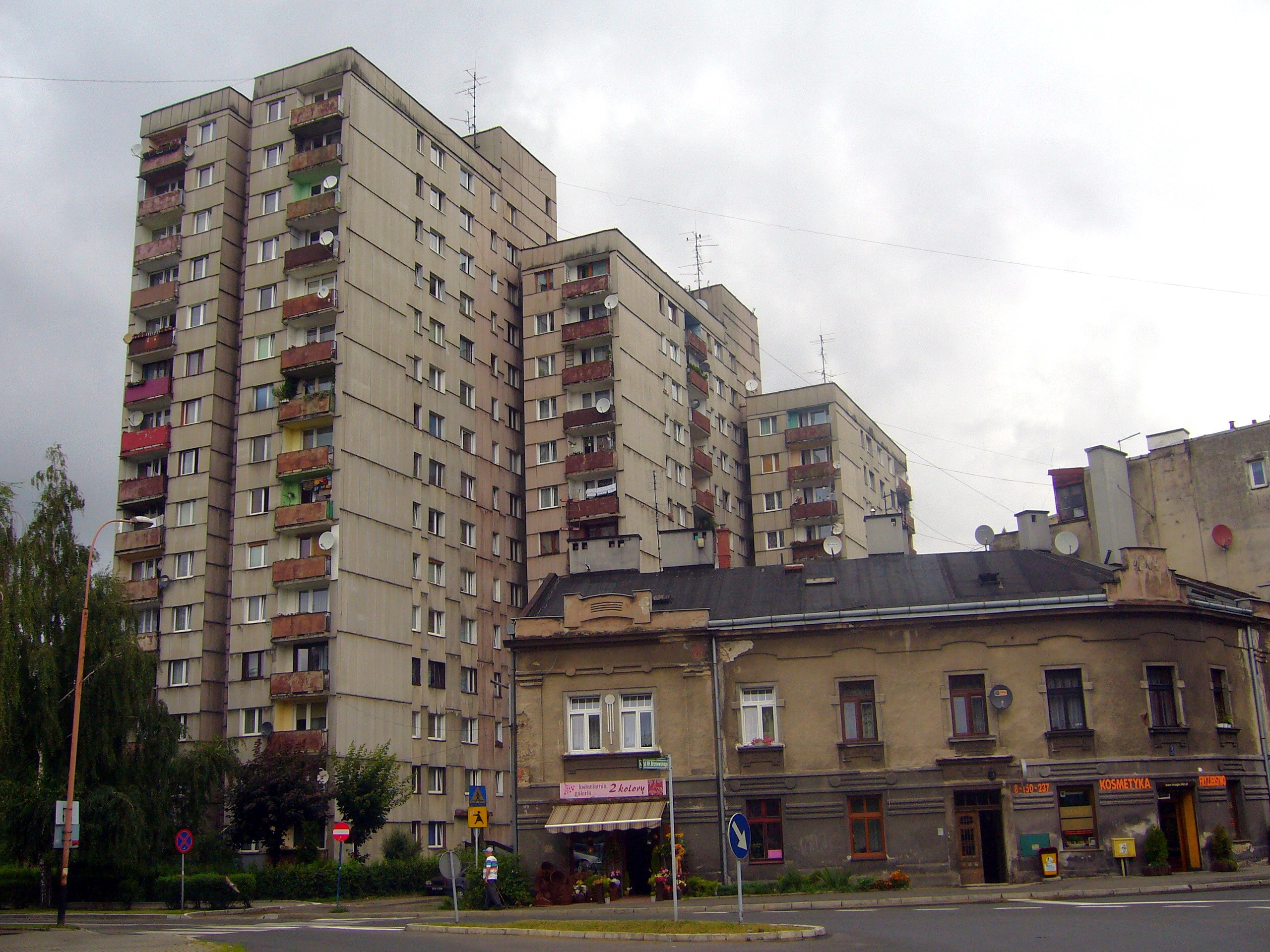 Bielsko-Biała. Tenement house at the corner of Kierowa Str. and Broniewskiego Str. against the background of tower block in Śródmiejskie housing estate.